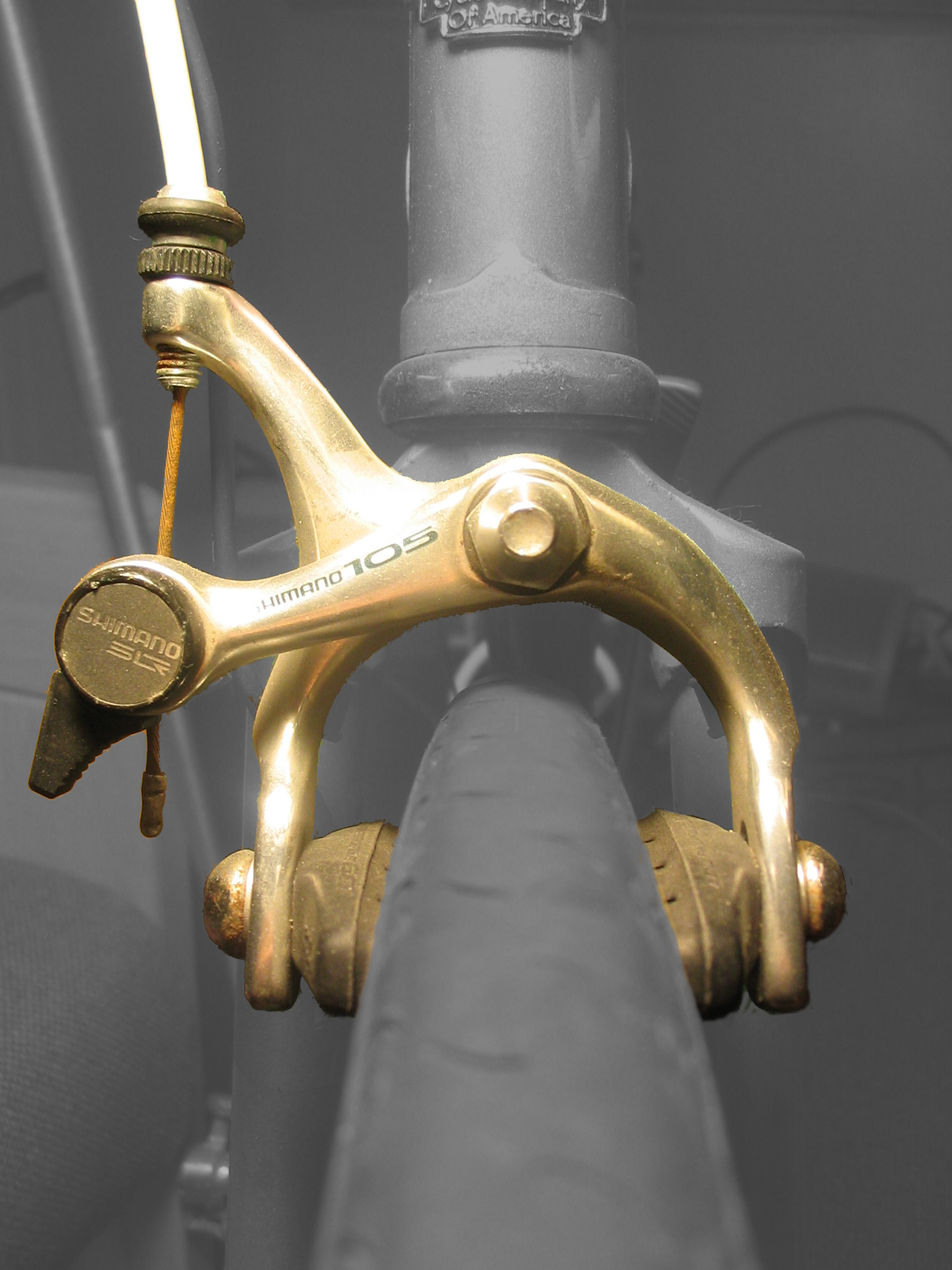 A sidepull caliper brake, shown on front bicycle wheel. Photo taken by User:Aezram on October 30, 2005